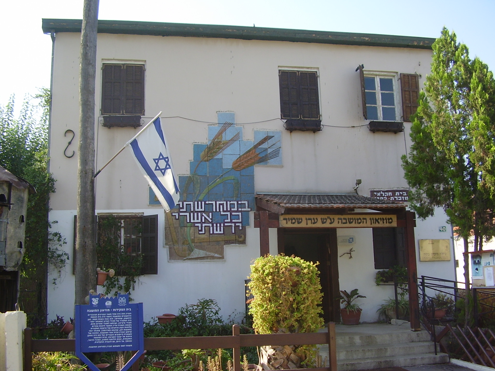 museum of the history of mazkeret batya